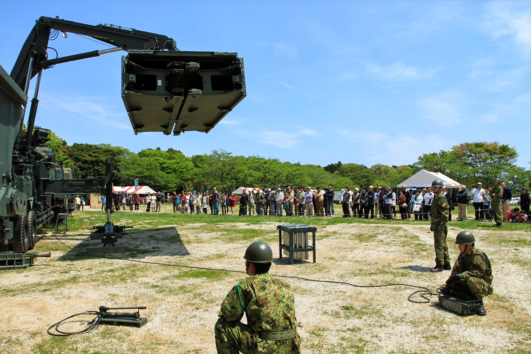 Title ０７式機動支援橋25.05.03~04 施校・常陸国風土記勅撰１３００年記念祭支援07MSB実演02.jpg Album 装備 ０７式機動支援橋（装備品展示・施設学校）